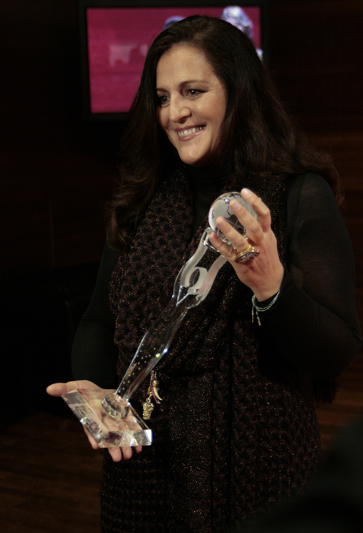 Fashion designer Angela Missoni at the Women's World Award 2009 (Wiener Stadthalle, Vienna, Austria) where she recieved the 'World Fashion Award'.